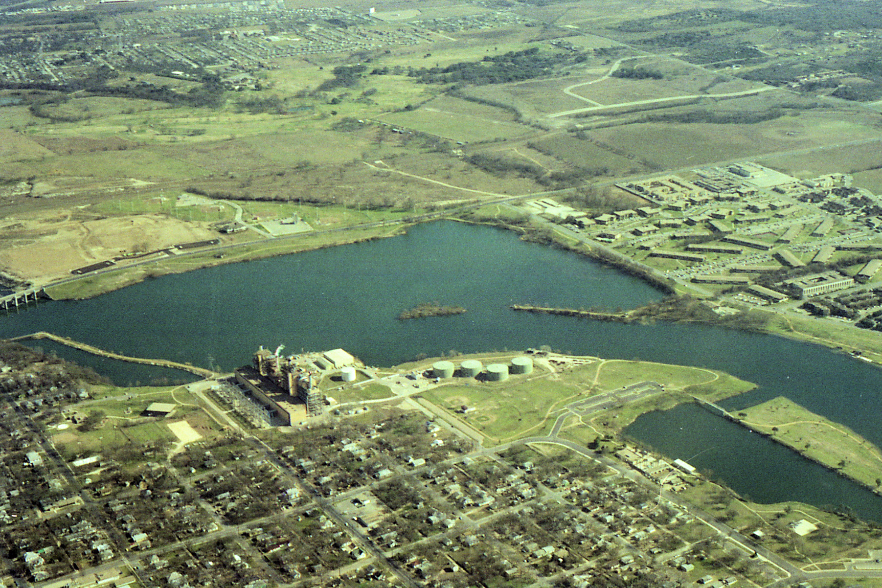 Ariel view of Town Lake, now Lady Bird Lake, Austin, Texas, United States circa 1980. This is the eastern end of the lake with Longhorn Dam at the left edge of the image, and the old Holly Street Power Plant left of center. Estimated altitude is 3500 foot.